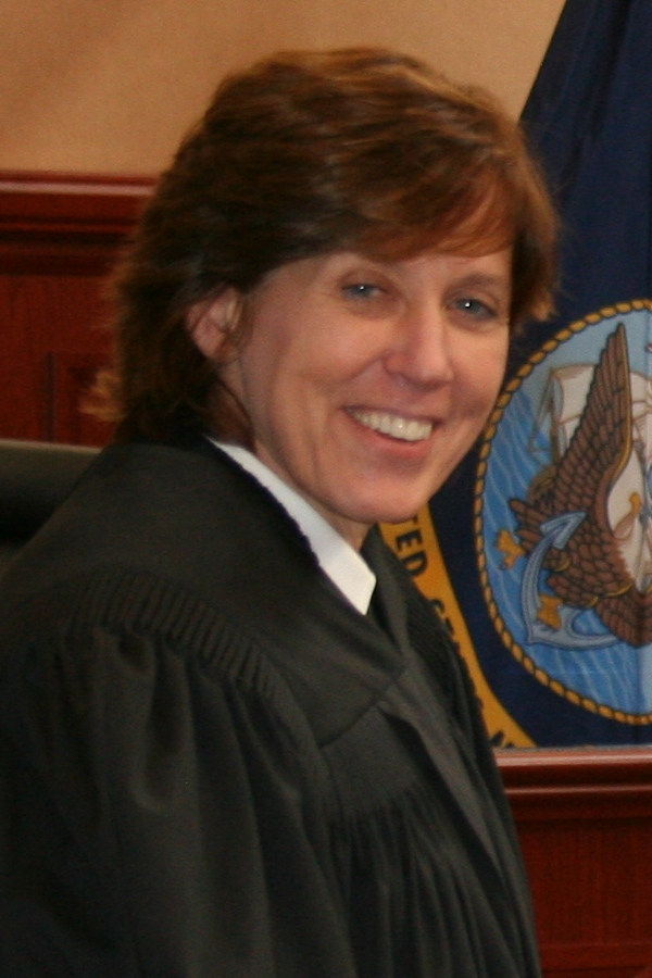 Capt. Moira Dempsey Modzelewski, Chief Judge of the Navy-Marine Corps Court of Criminal Appeals